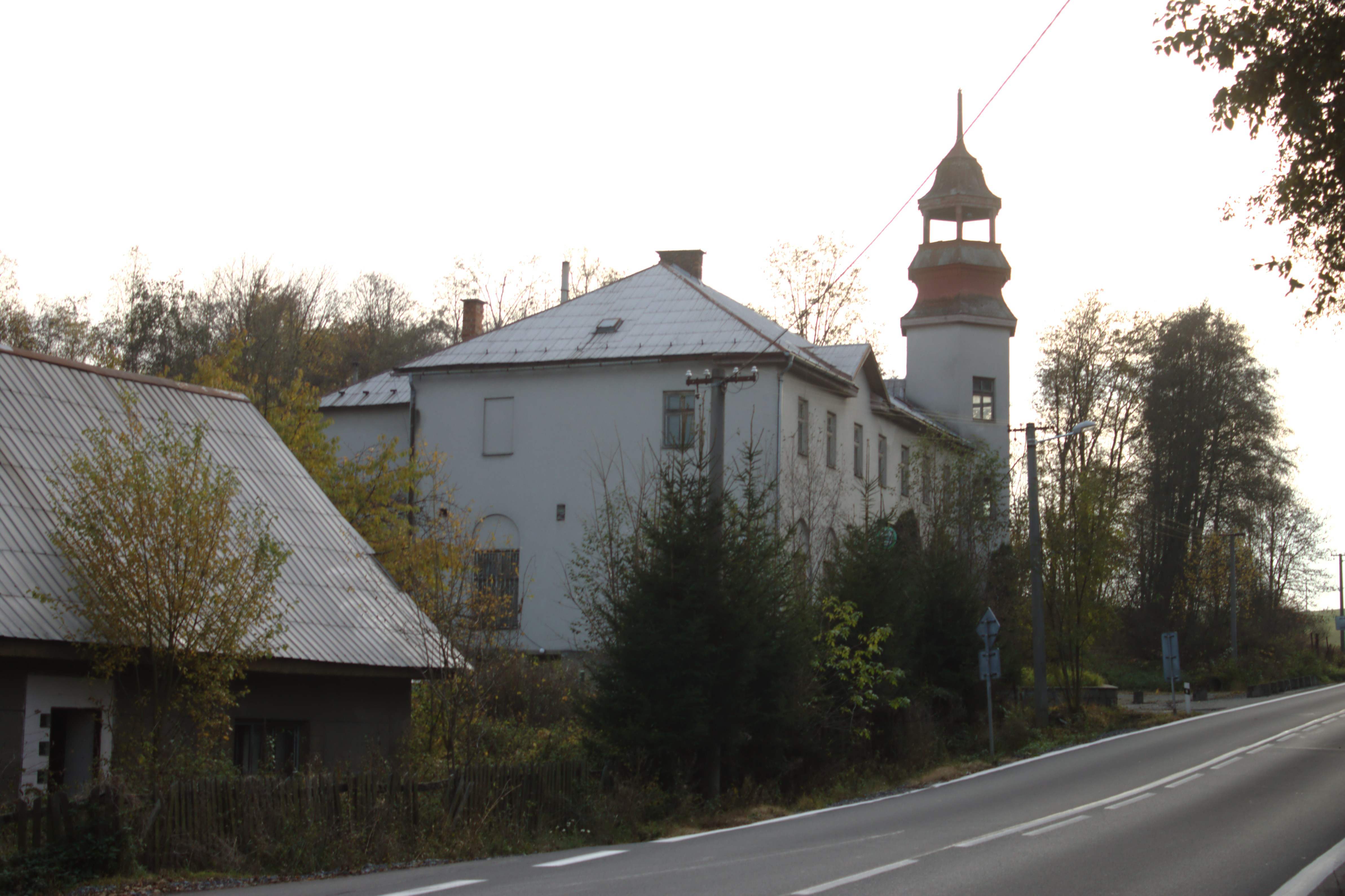 A building next to a main road in Ondrášov near Moravský Beroun, Olomouc Region, CZ